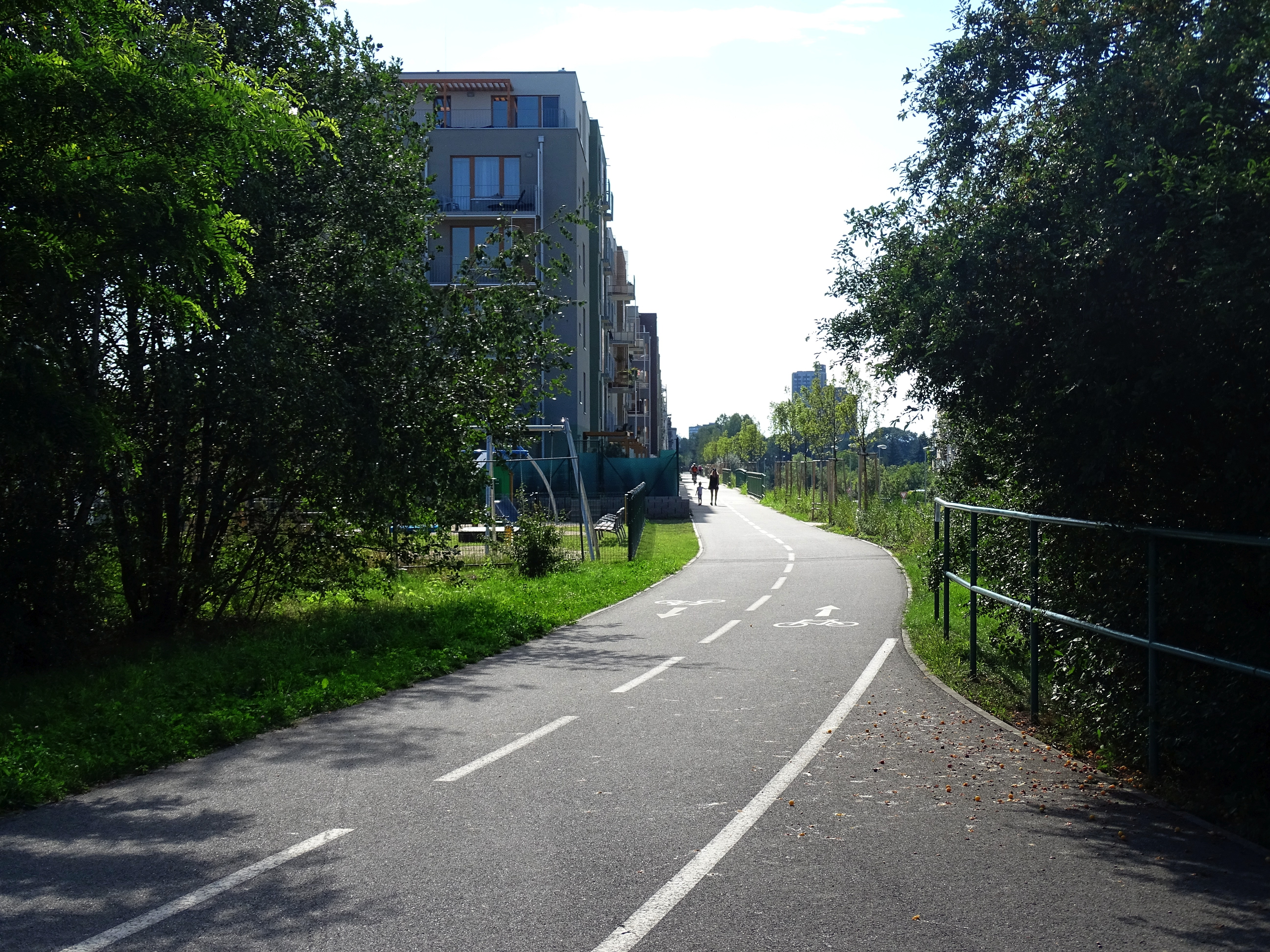 Prague-Hloubětín, Czech Republic. Rokytka Bikeway, Modrého street.